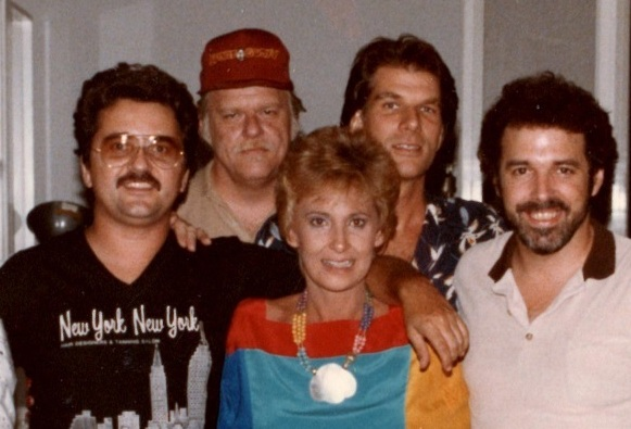 Tom Robb with Larry Byrum, Barry Beckett, Tammy Wynette, Steve Buckingham, Eddie Bayers, Gene Eichelberger, and kneeling Steve Gibson